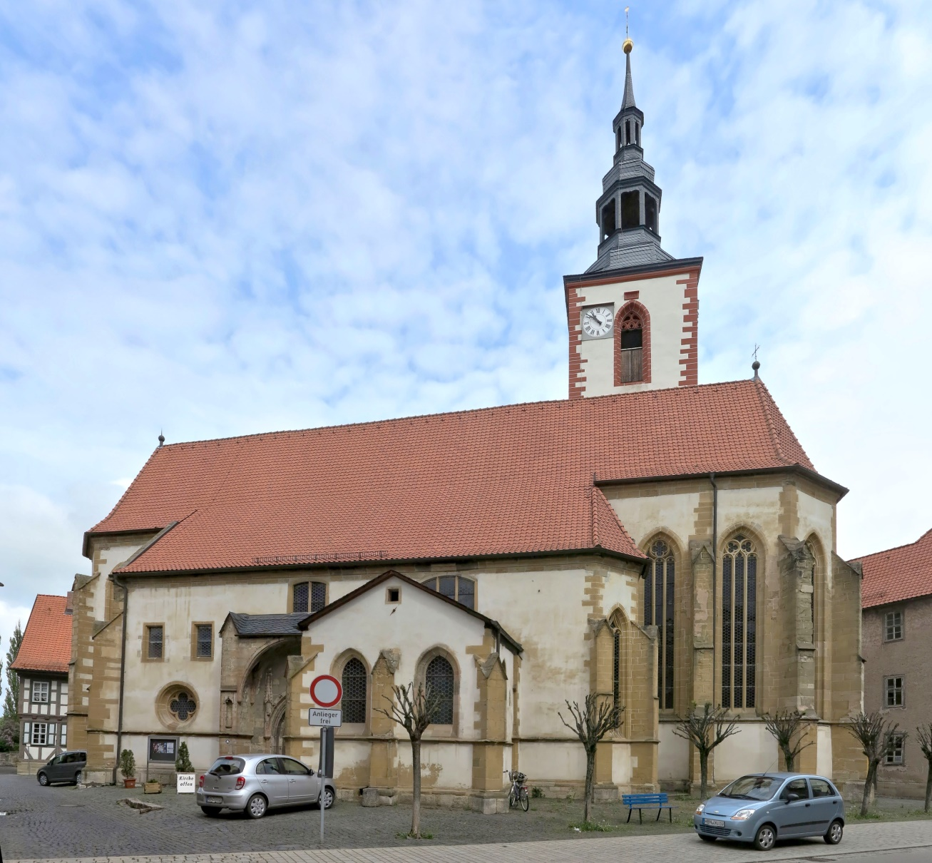 Stiftskirche